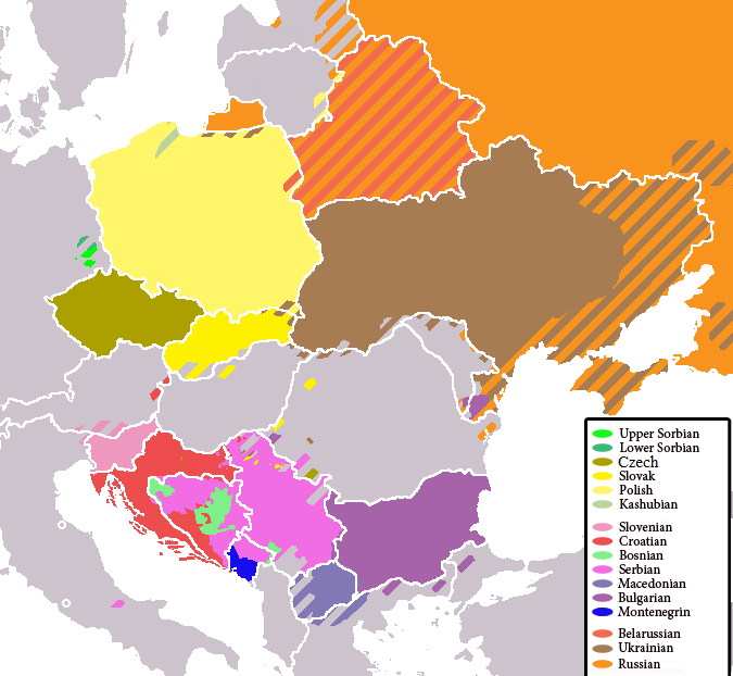 Correction for Gradišće Croatian in Austria